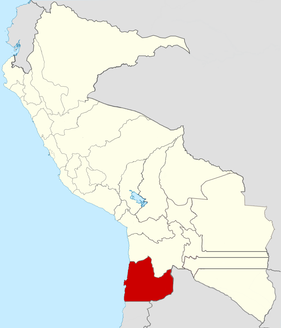 Estado de Atacama de los Estados Unidos Perú-Bolivanos